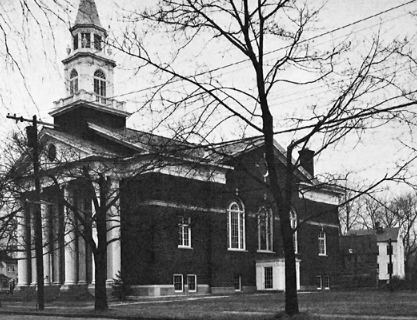 North facade of First Congregational Church of Albany, NY, USA, as seen in 1958 prior to construction of its Sunday School wing from that facade.